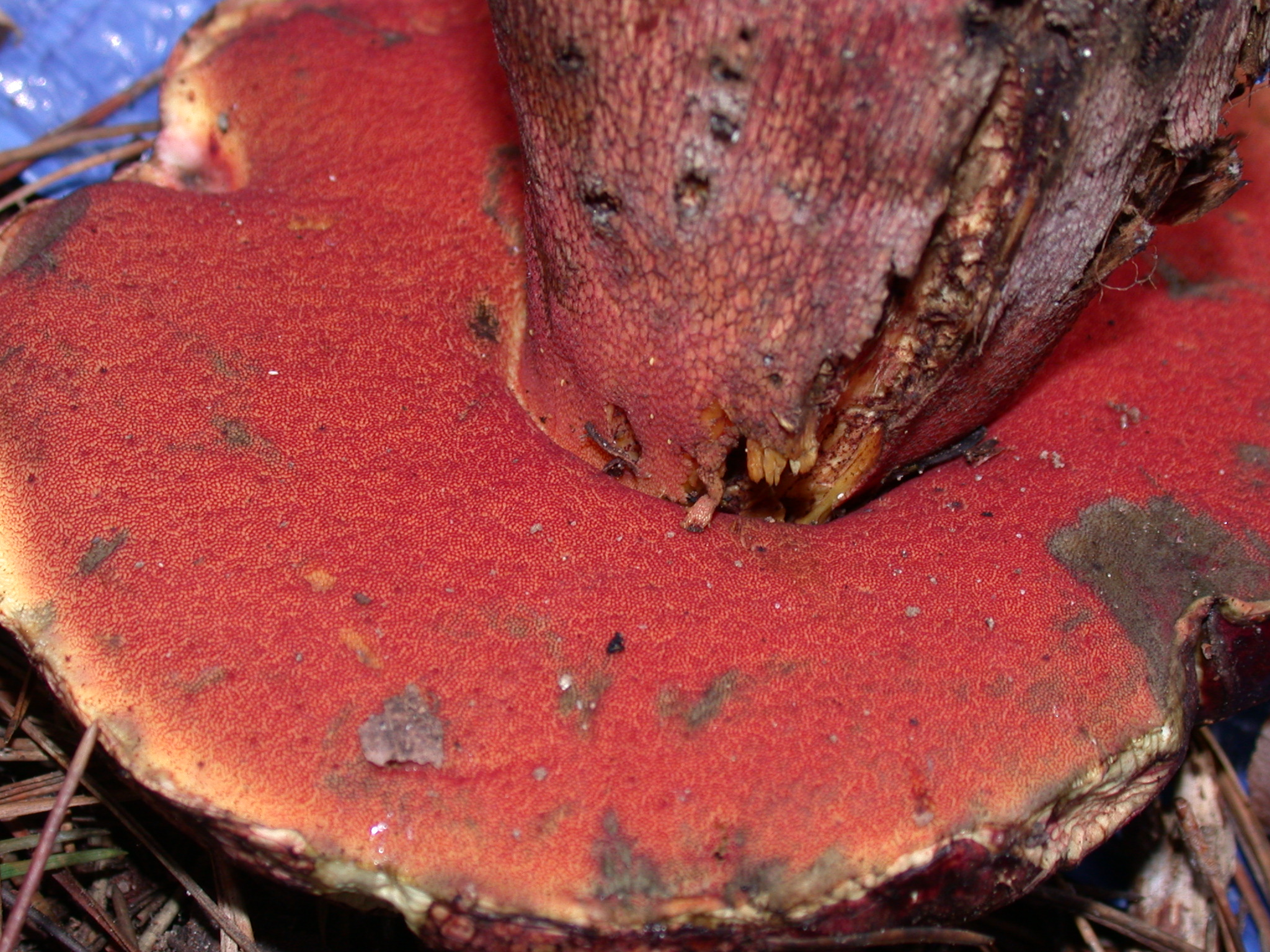 The pore surface of the mushroom Boletus pulcherrimus − Thiers & Halling. Specimen found in Salt Point State Park, Sonoma Co., California, USA.